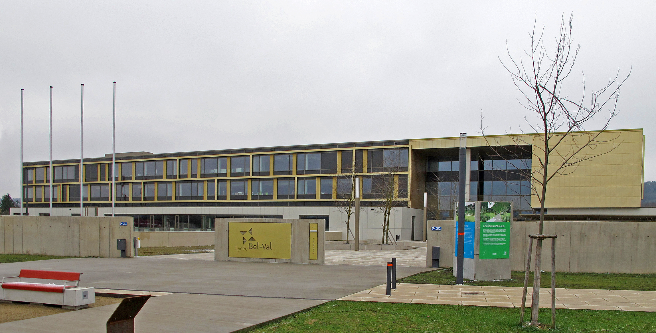 Secondary school Lycée Bel-Val, Belvaux, Luxembourg